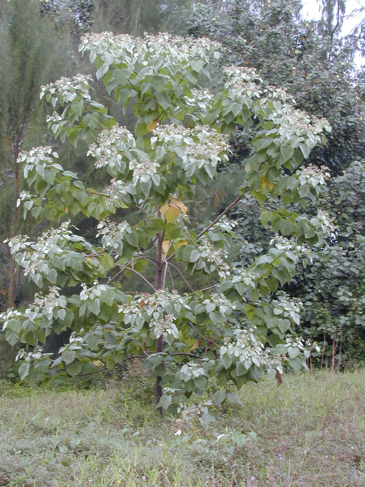 Melochia umbellata (small tree). Location: Hawaii, Keaukaha